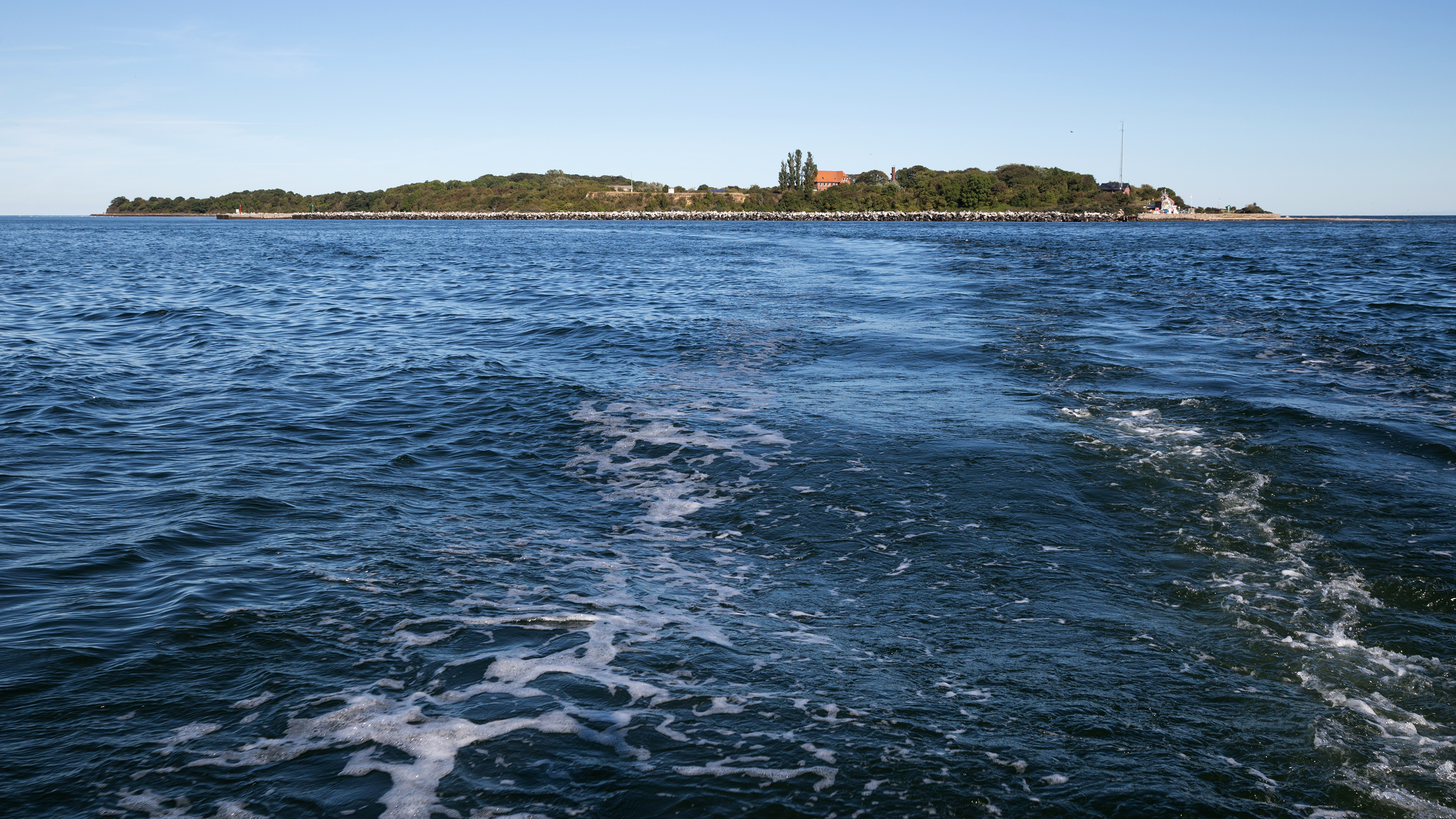 View onto the Greifwalder Oie (island in the Baltic Sea)